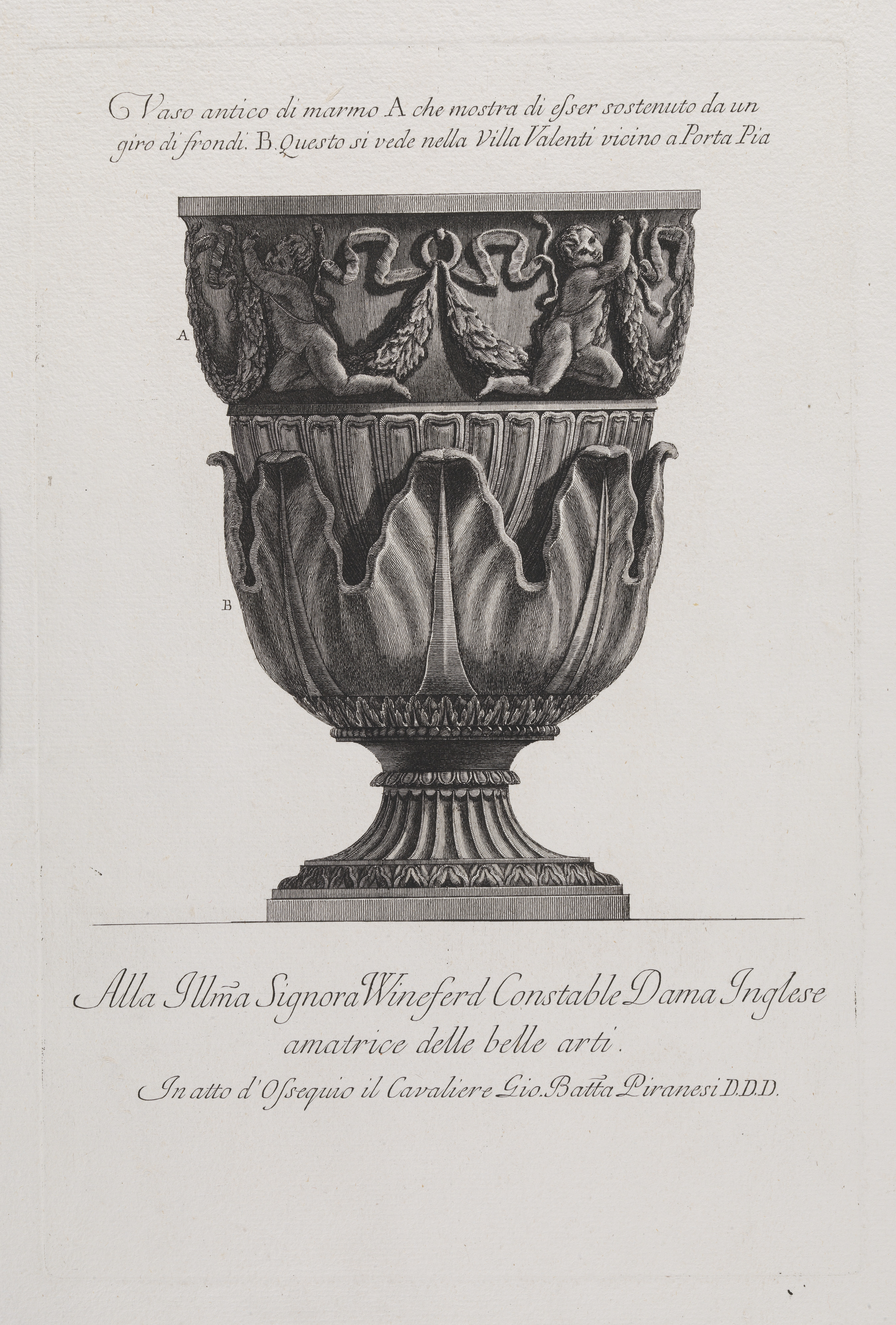 A marble vase. Etching by G.B. Piranesi. The vase bears around the outside relief sculptures of putti hanging festoons. Piranesi states that the vase was in the Villa Valenti in Rome. Subsequently the villa was renamed the Villa Paolina and Villa Bonaparte, and is currently (2011) the residence of the French ambassador to the Holy See (Carlo Pietrangeli, Villa Paolina, [Firenze]: Istituto di studi romani, [1961], no mention of Piranesi or of this vase). Iconographic Collections Keywords: Villa Valenti Gonzaga a Porta Pia.; Winefred Constable; Giovanni Battista Piranesi